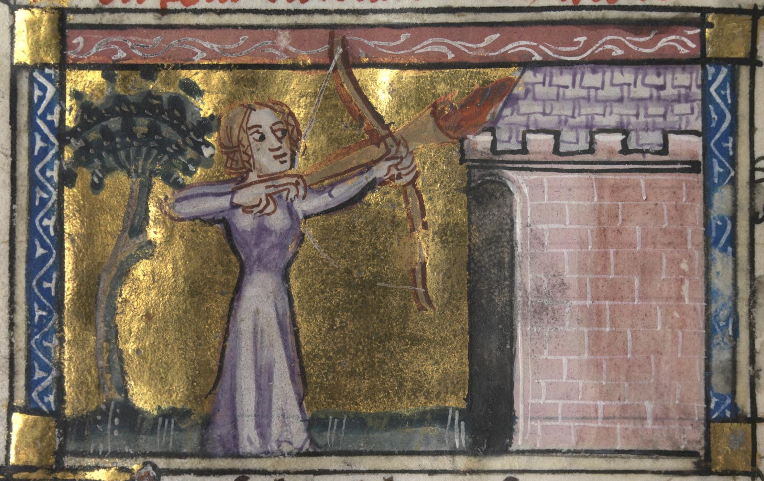 The Roman de la Rose manuscript contains one of the most popular romantic French poems of its time